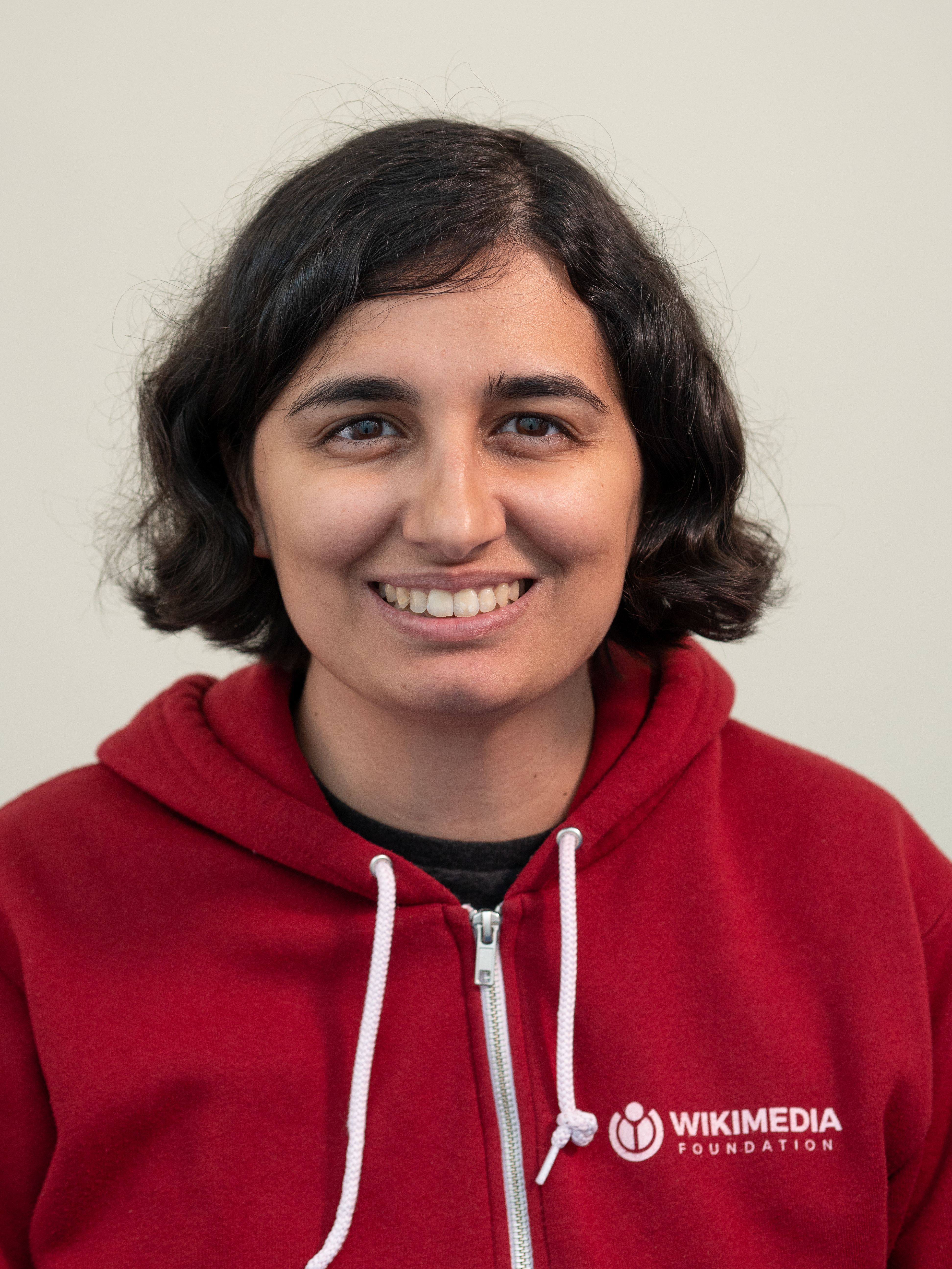 Portrait taken at Wikimedia Summit 2019